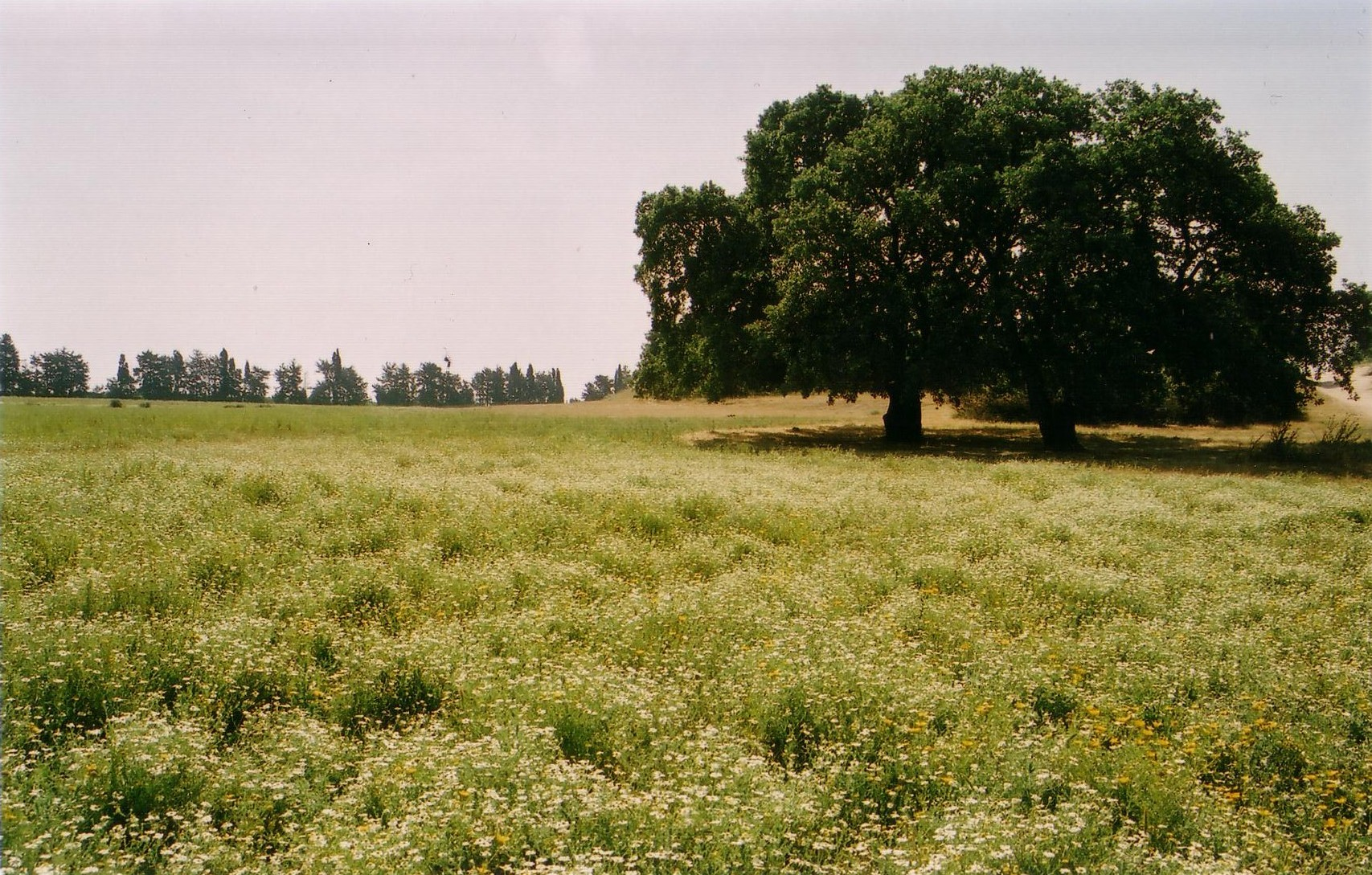 Sharon Park, Israel